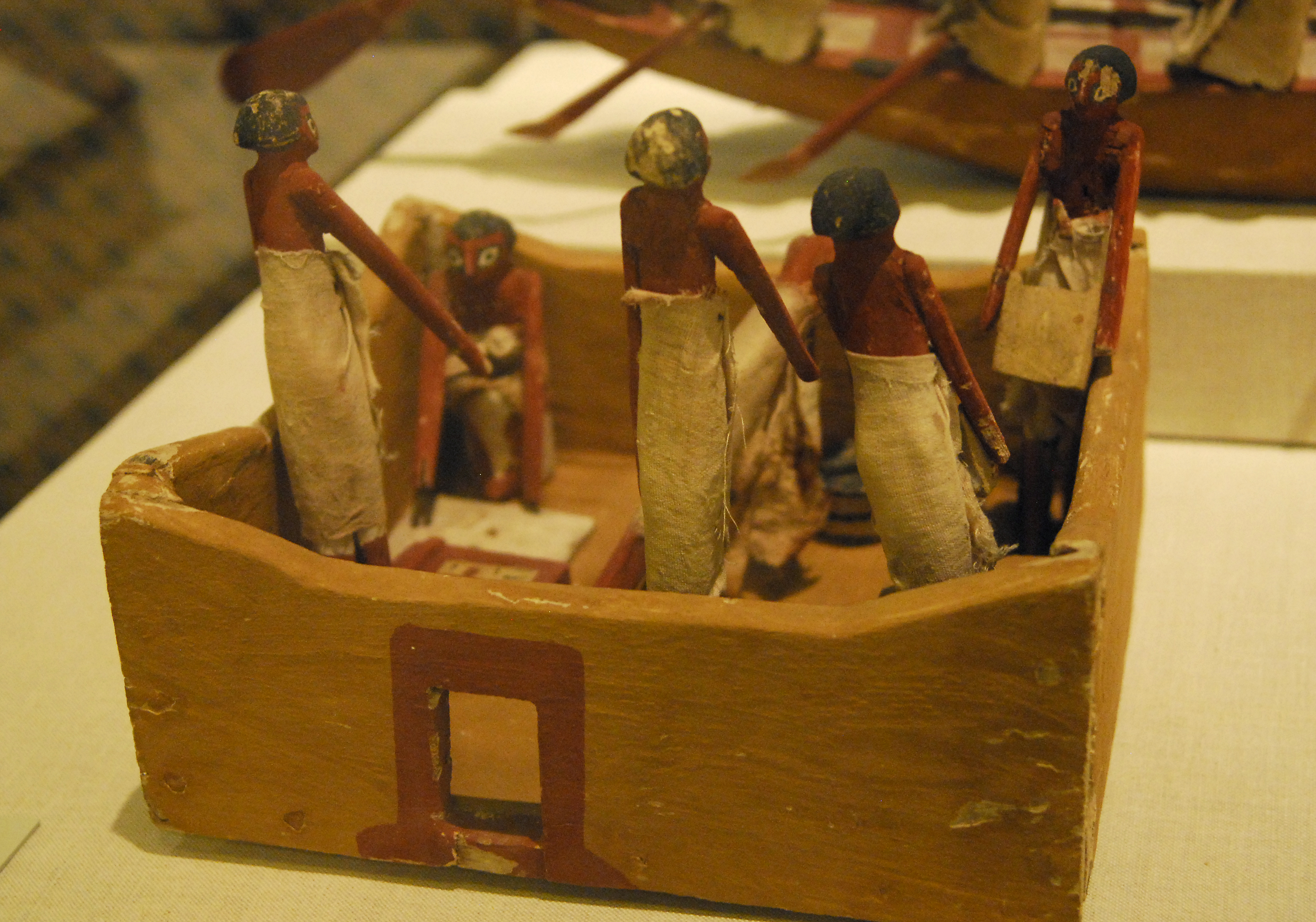 Model Granary: wood, gesso, linen, pigment 250x221x187mm, Egypt- First Intermediate Period, Dynasty 9, ca. 2200 B.C. Sedment el-Gebel. Many models are in the form of self contained boxes. This example shows men pouring grain from rectangular sacks into compartmented silos. In the opposite corner, a scribe, seated on the floor, records the quantities on a gesso-covered writing board. University of Chicago: The Oriental Institute, Egypt.